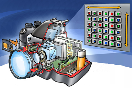 Cutaway illustration of a camera showing chip